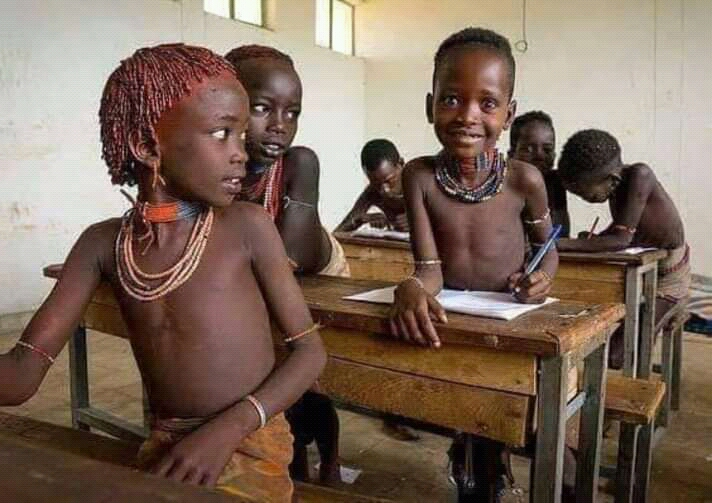 This picture shows how we should live in appreciation and making humour with the little things we get in life. This is an image with the theme "Play" from: Kenya